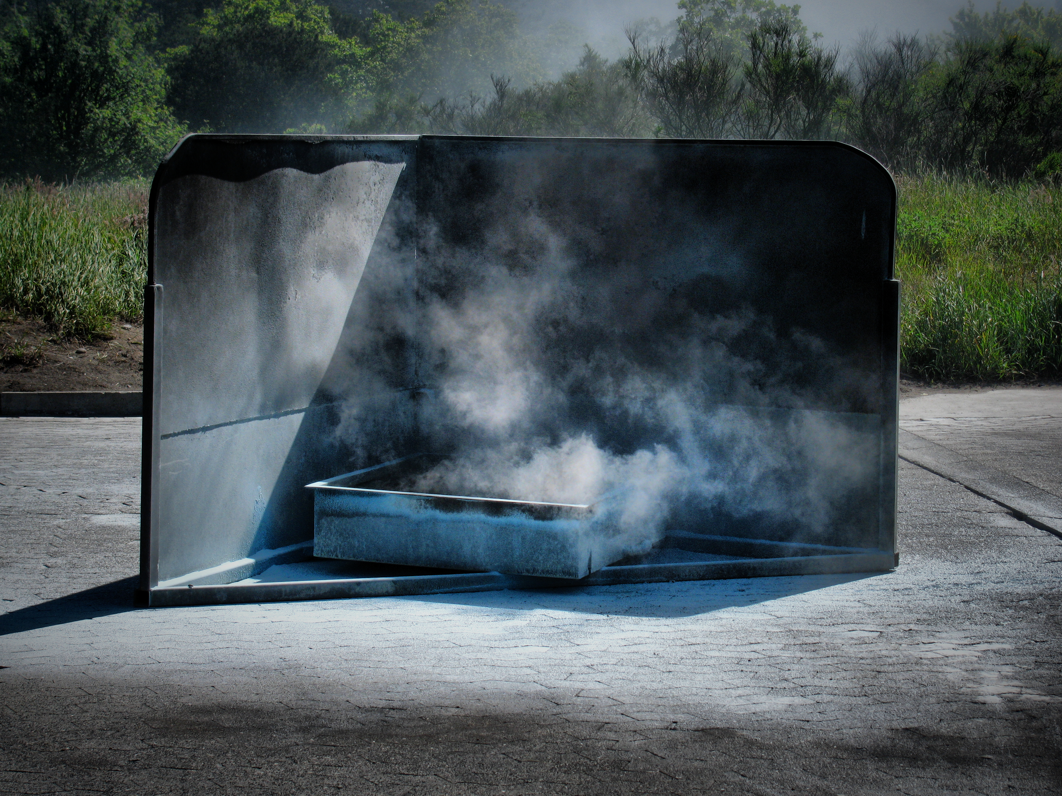 Firefighting exercise at Nordjysk Brand- og Redningsskole, Frederikshavn, Denmark